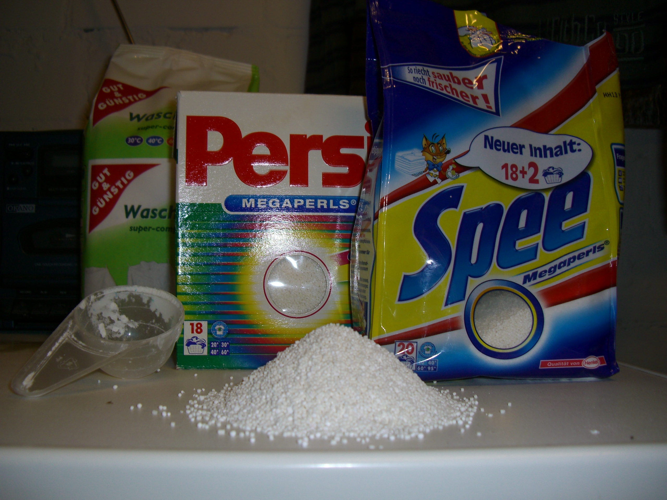 three German brands of washing powders